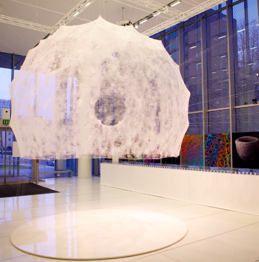 Silk Pavilion, MIT Media Lab. Constructed in place by silkworms on a hung frame. Small version.